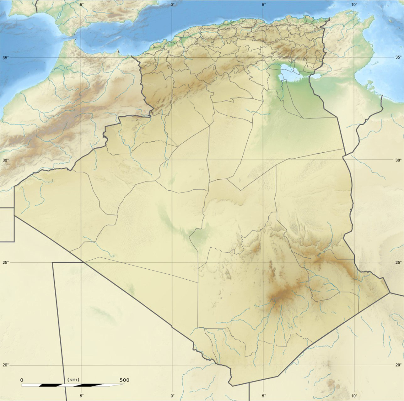 Blank physical map of Algeria, for geo-location purposes.